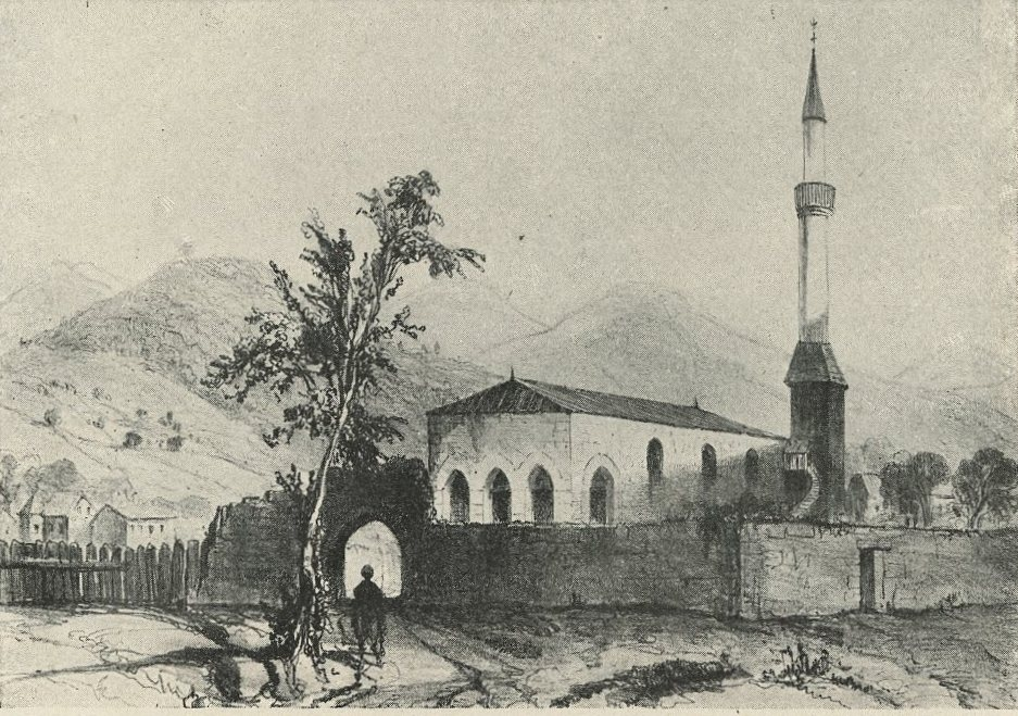 Lithography of Isaccea